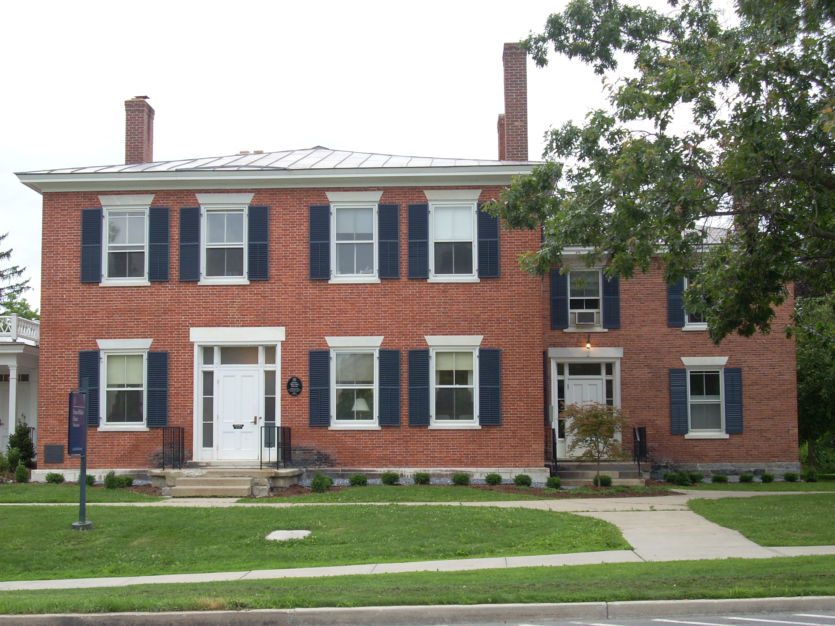 The original section of Emma Willard House (addition is to the left), now serving as the admissions building at Middlebury College in Middlebury, Vermont, USA.